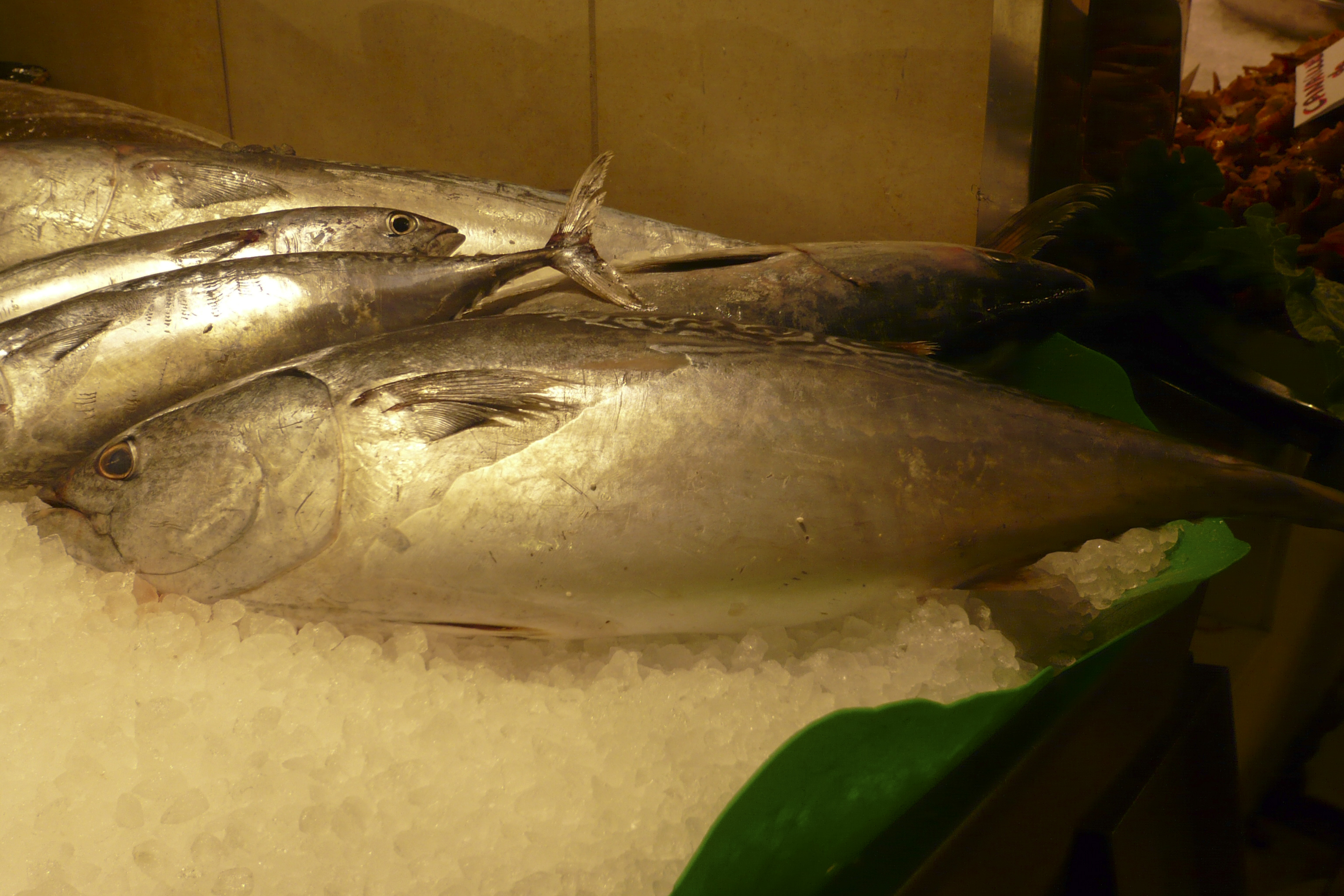 Fish stall at Barcelona market